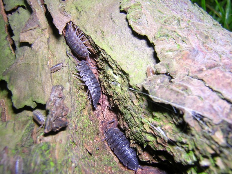 Description: genus Isopoda - sub genus Oniscidea, sp ? fr: cloporte Photo of woodlice in pear tree bark. I do not know the exact species. The photo was taken in the north of England. Edit: Remove this picture from the Oniscus asellus page. This is mostly Porcellio scaber (almost certain). The middle and lower big isopods on the picture are Porcellio scaber, the upper big isopod is (probably) Oniscus asellus. The 2 smaller ones are hard to identify. Oniscus asellus looks like this: , has bright spots at the edge of the body and rows of yellow dots. Porcellio scaber is mostly grey and looks like this